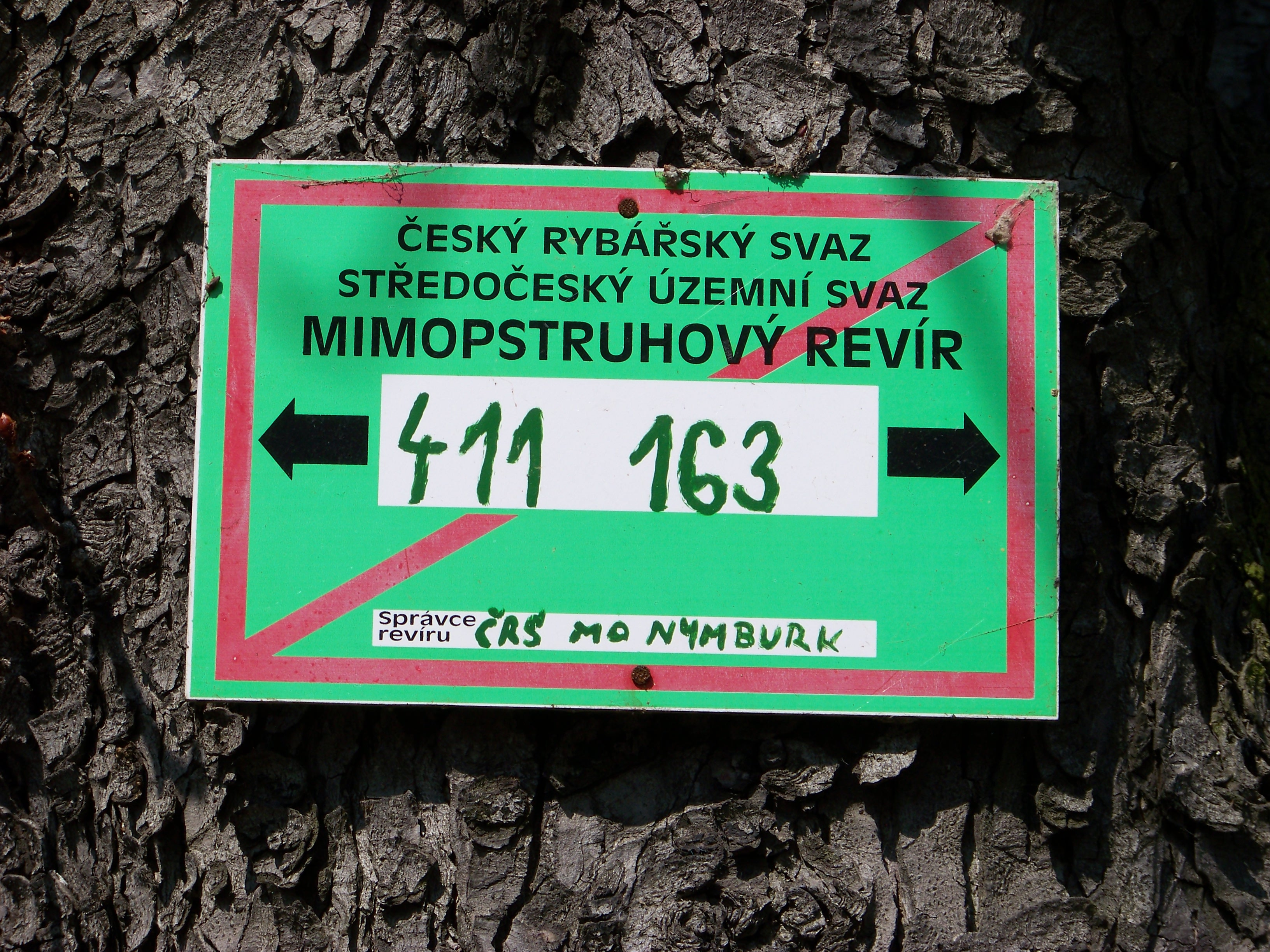 Nymburk, Central Bohemian Region, the Czech Republic. A fishing area sign on the city moat. - OpenStreetMap(Info)